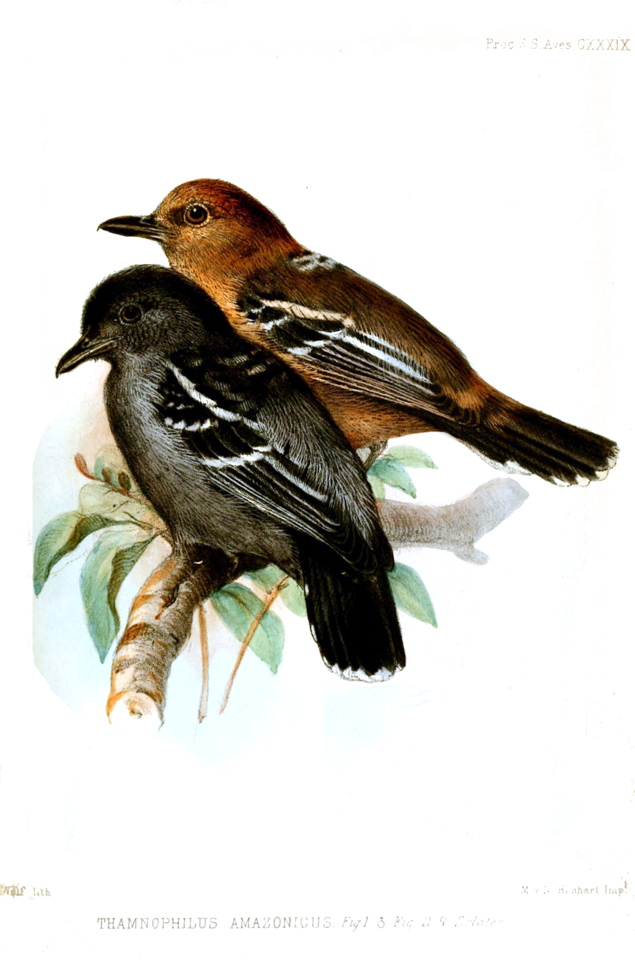 Thamnophilus amazonicus